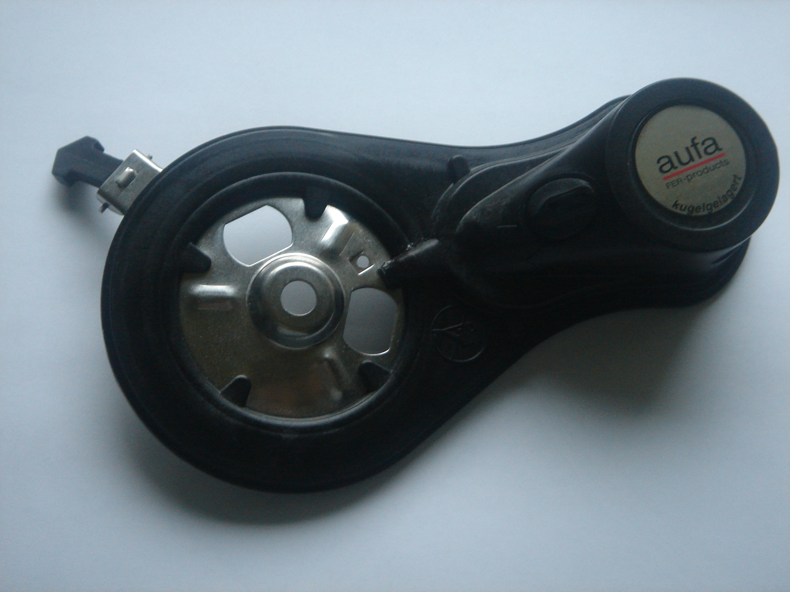 A spoke dynamo, modell "Aufa FER 2002".